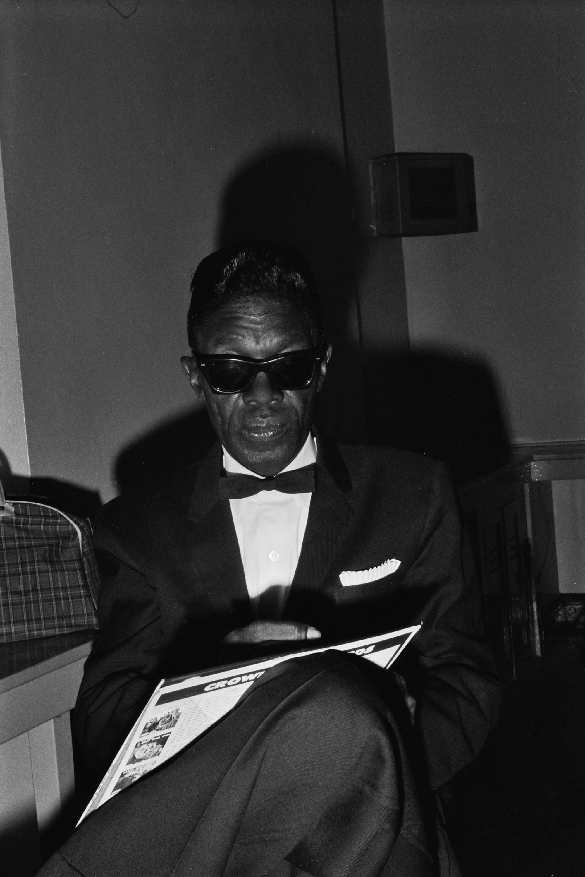 autographing a record